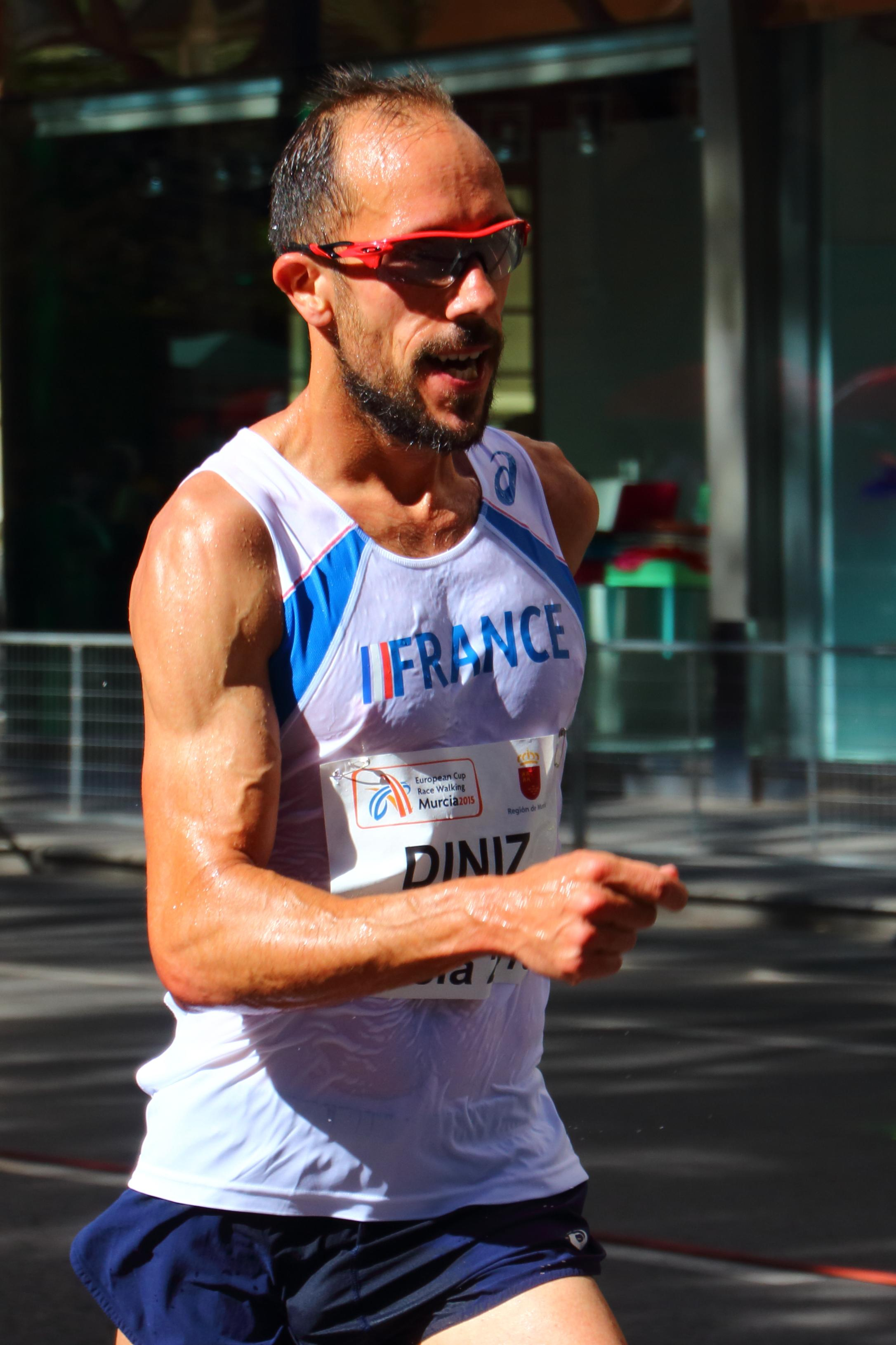 Yohann Diniz, french race walker, in the European Cup Race Walking 2015 (Murcia, Spain).